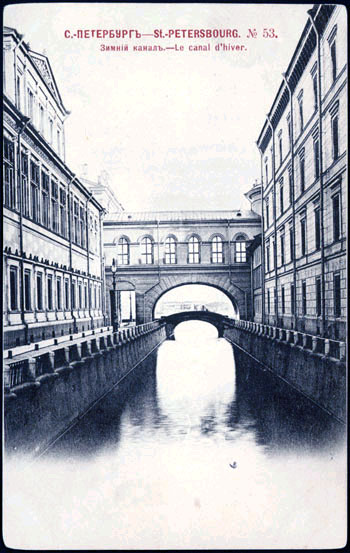 Winter Canal near the Winter Palace, St Petersburg.